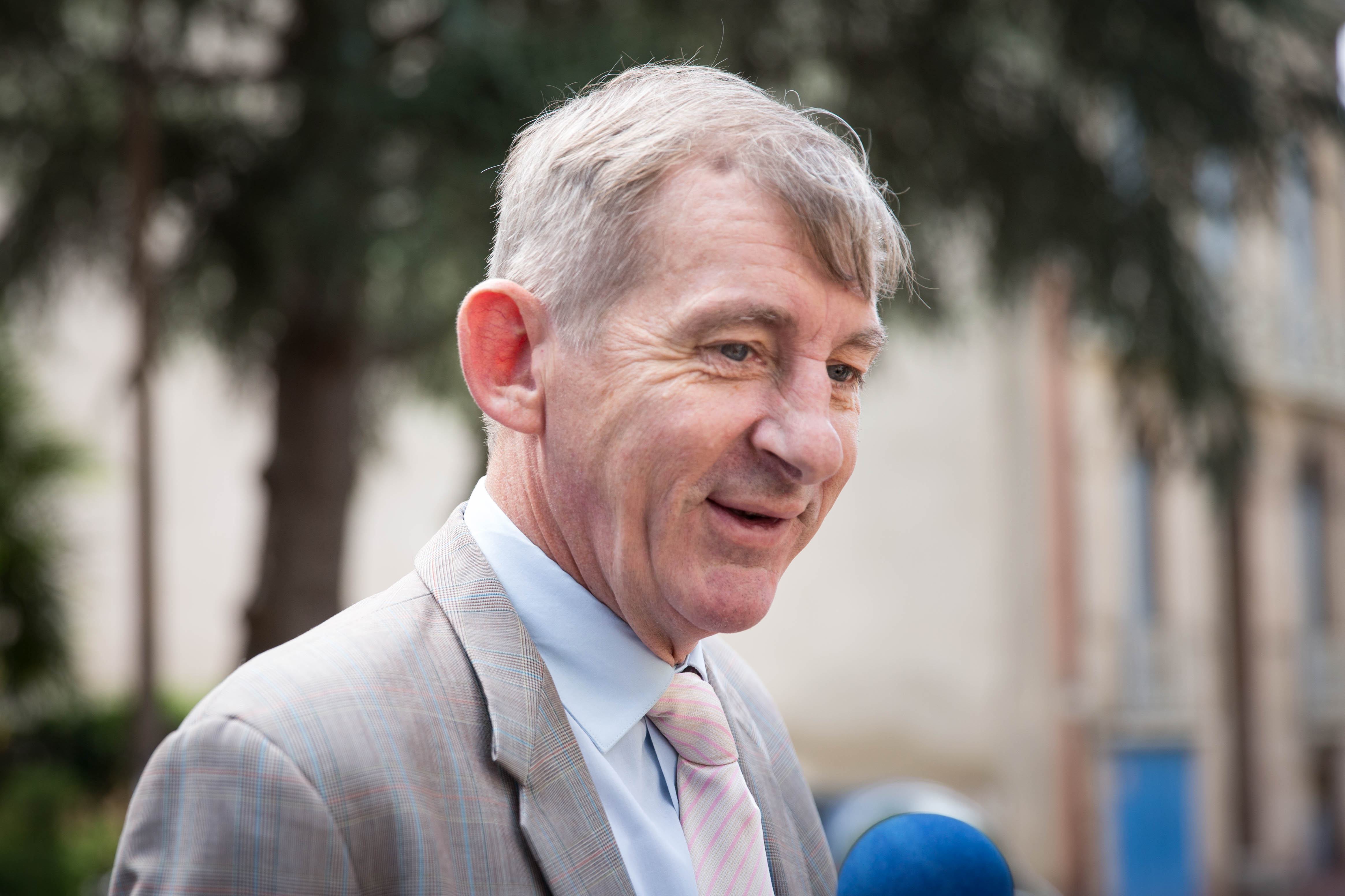 Christophe Salengro in Toulouse